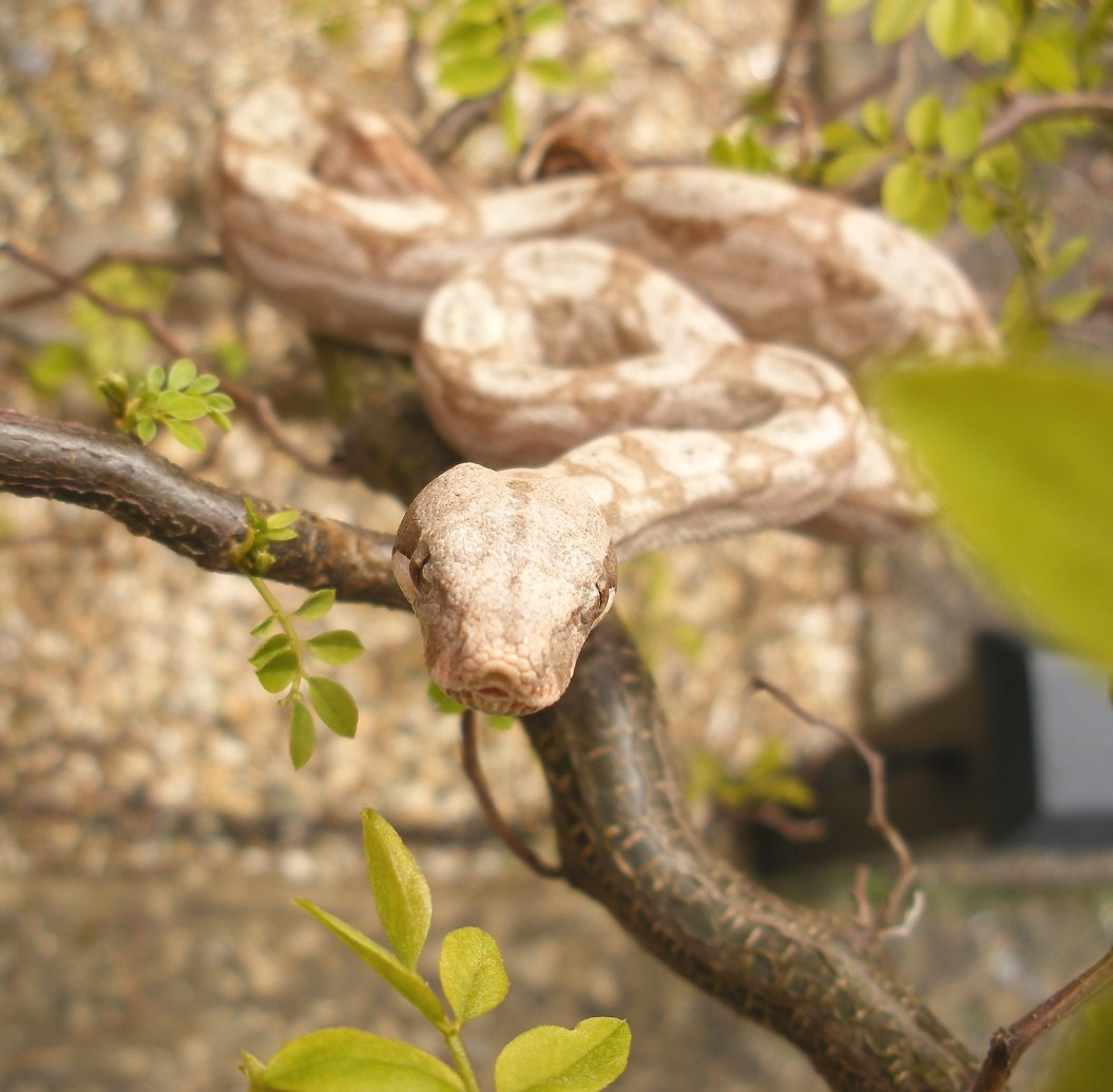 Hogg Island Boa